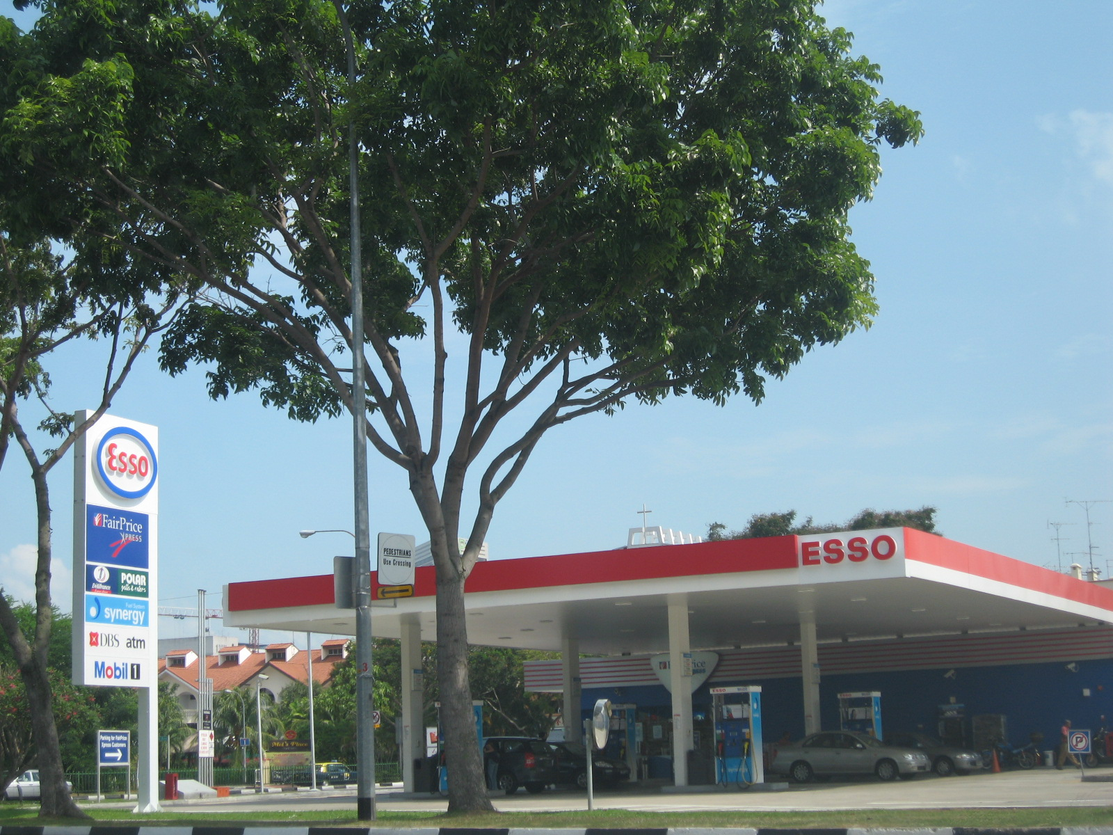 Esso station, Still Road run by NTUC FairPrice.